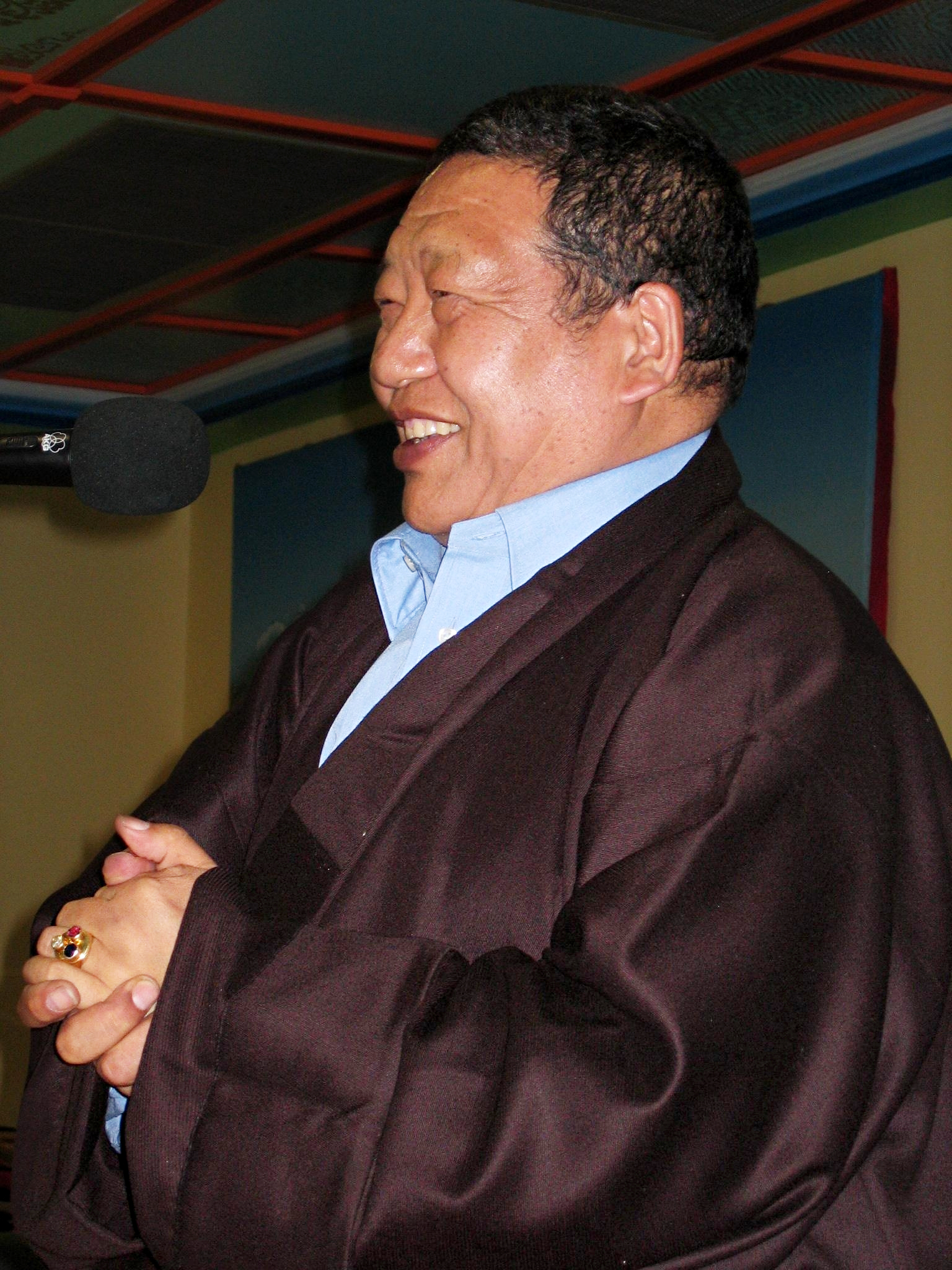 Dr Akong Tulku Rinpoche at his 65th Birthday party at Samye Ling, April 2, 2005.